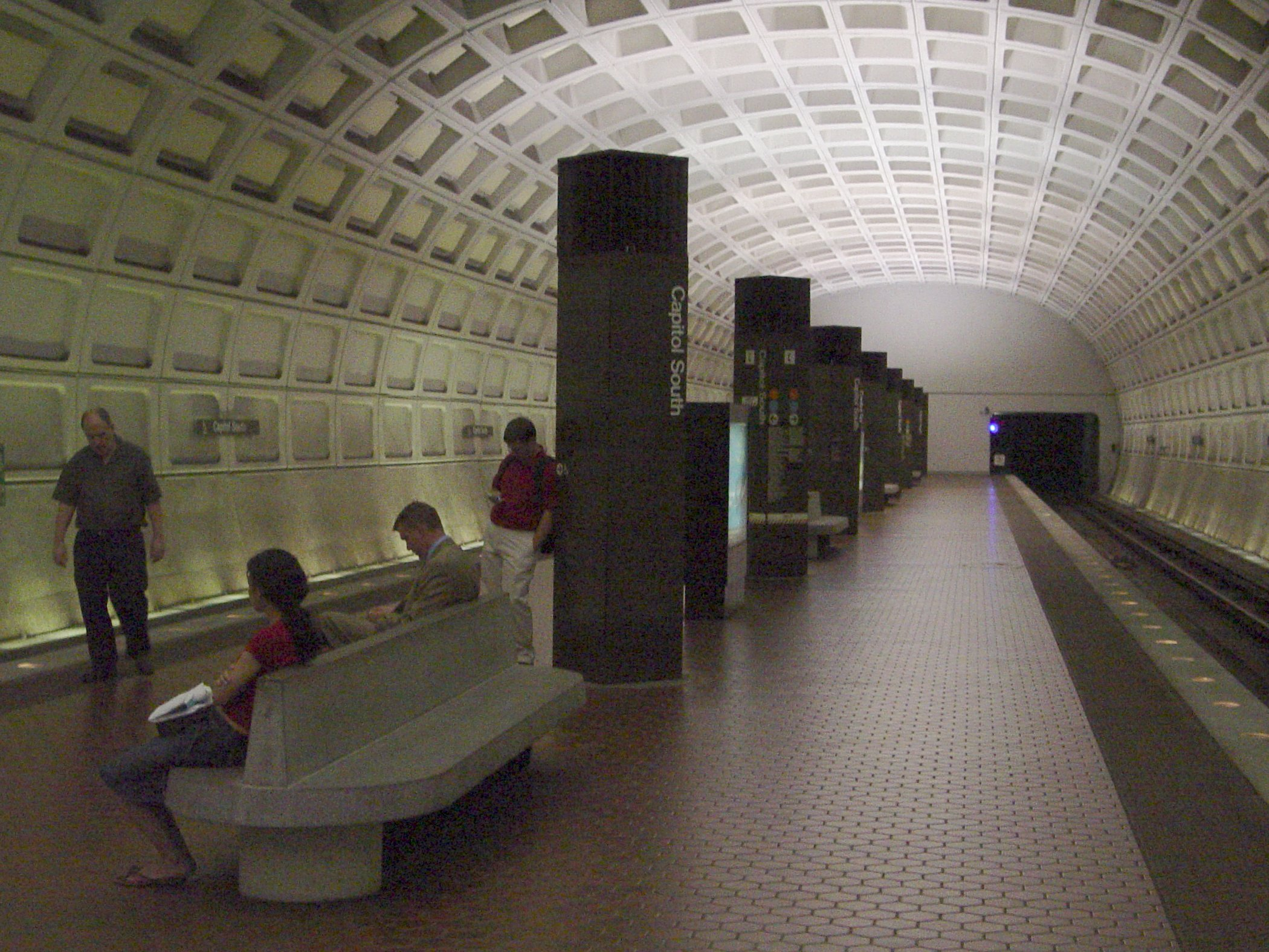 Capitol South station